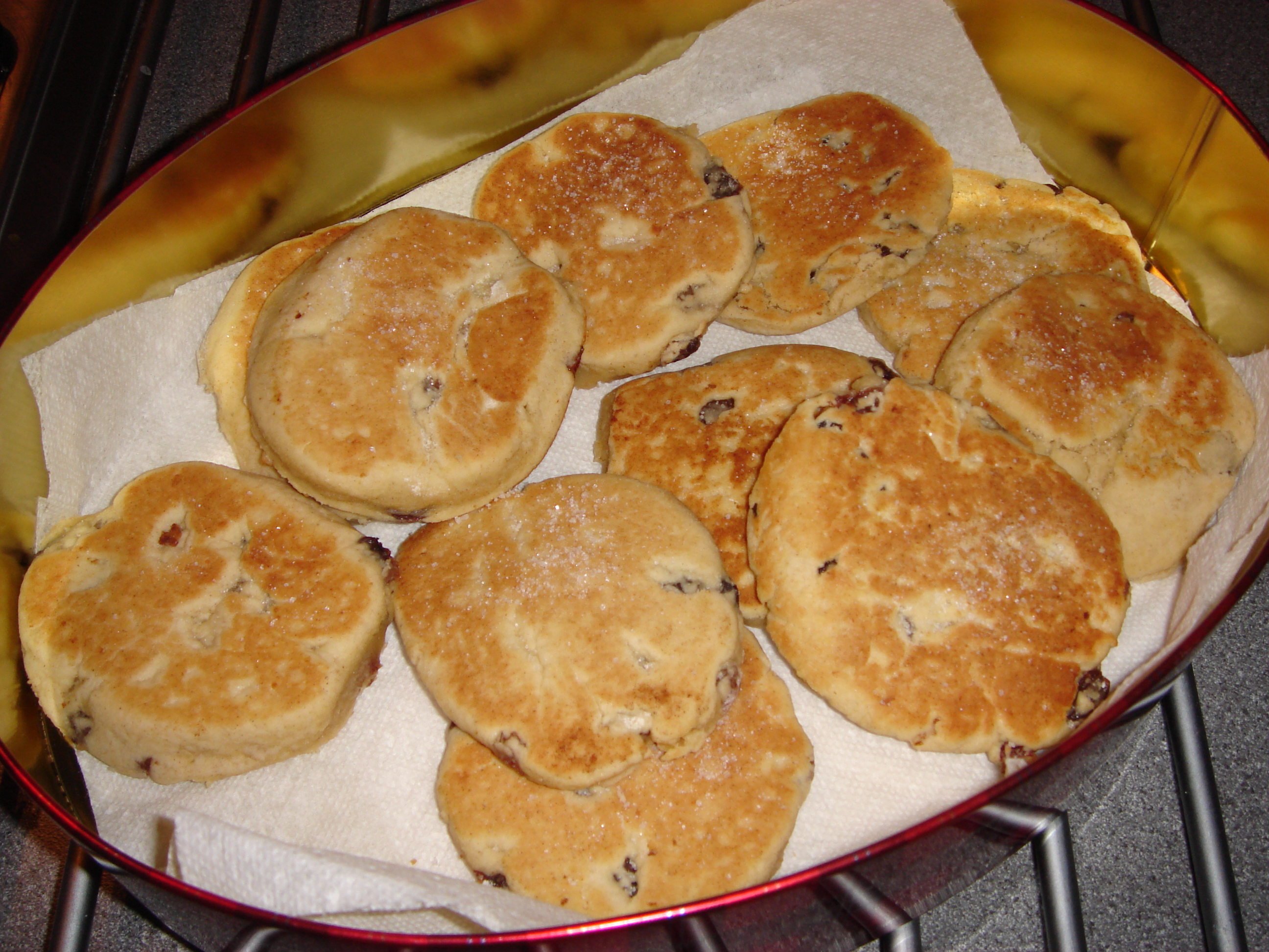 A tin of home-made welsh cakes. Photograph by James Allen (User:Moochocoogle).